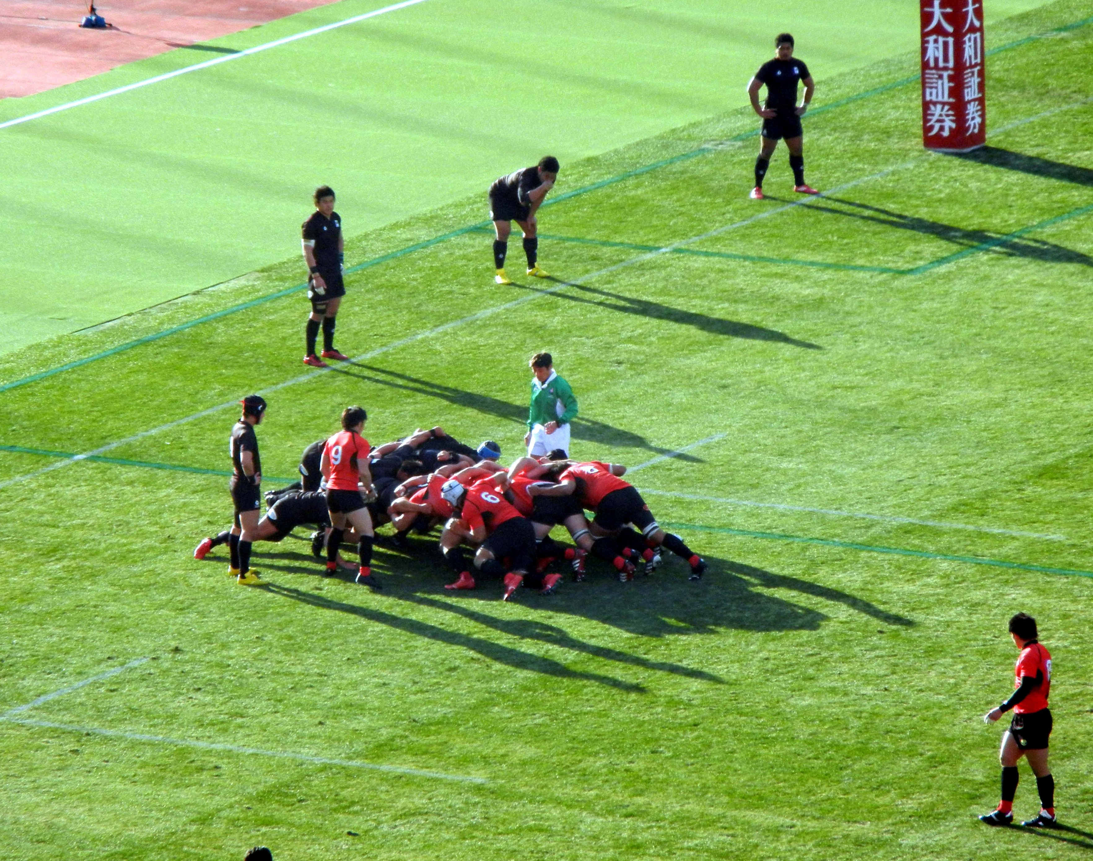 Teikyo University vs Tenri University